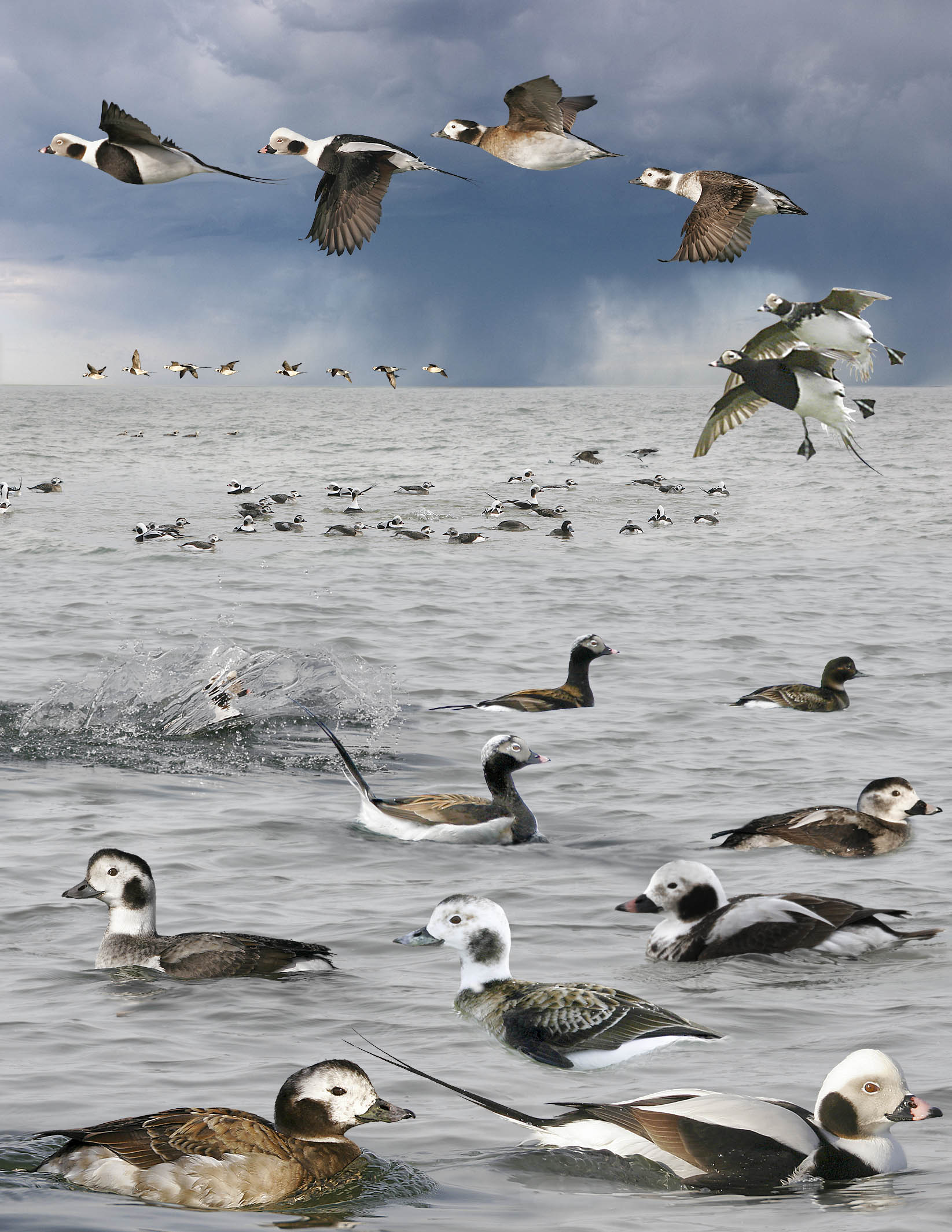 Long-tailed Duck from the Crossley ID Guide Britain and Ireland